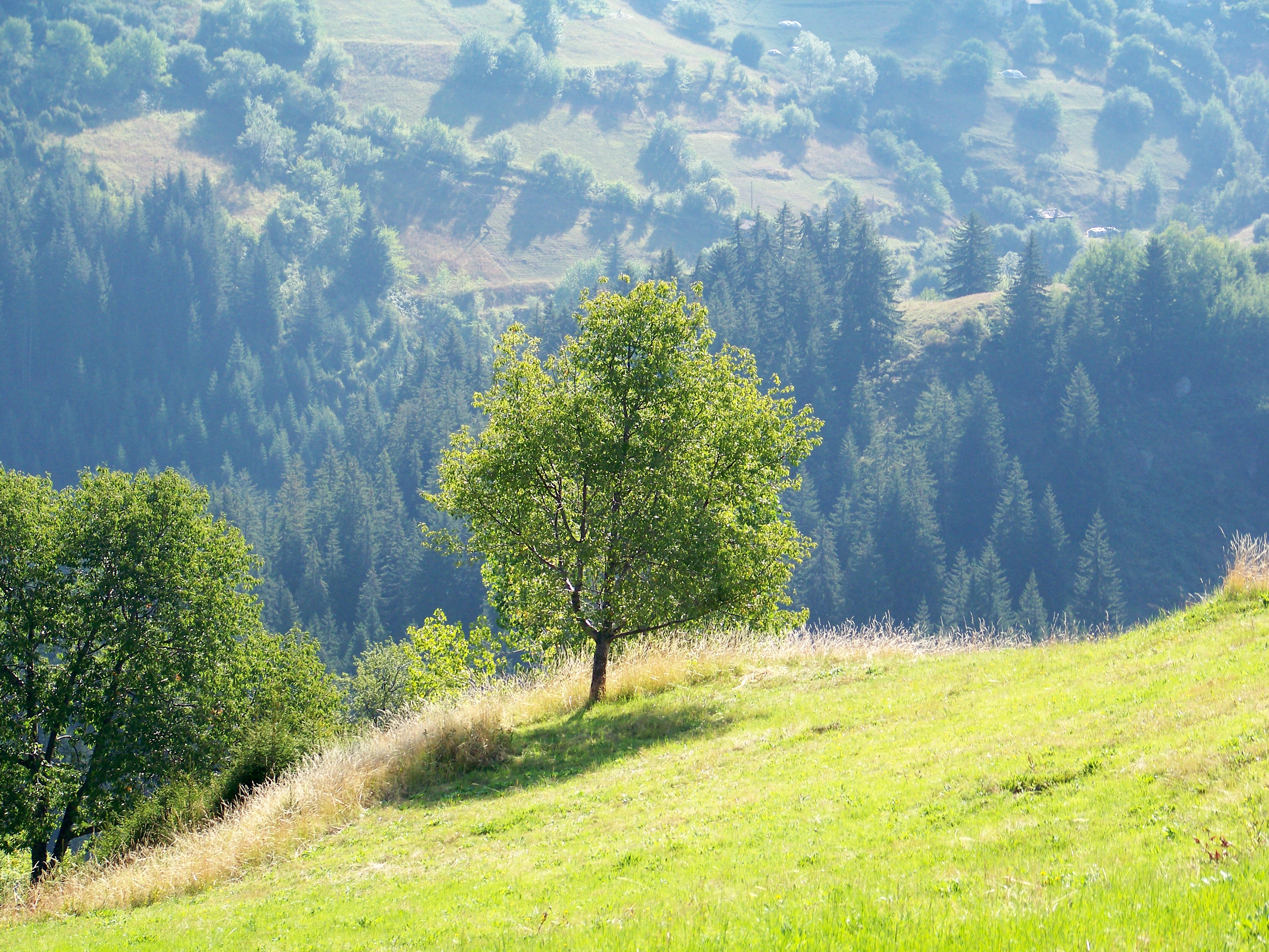 Bulgaria, Rhodope,near the village of Gela